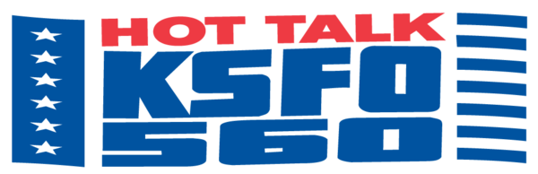 Logo of the radio station KSFO used from July 1, 2008 to April 4, 2016; variants of this logo have been used dating back to 1997.